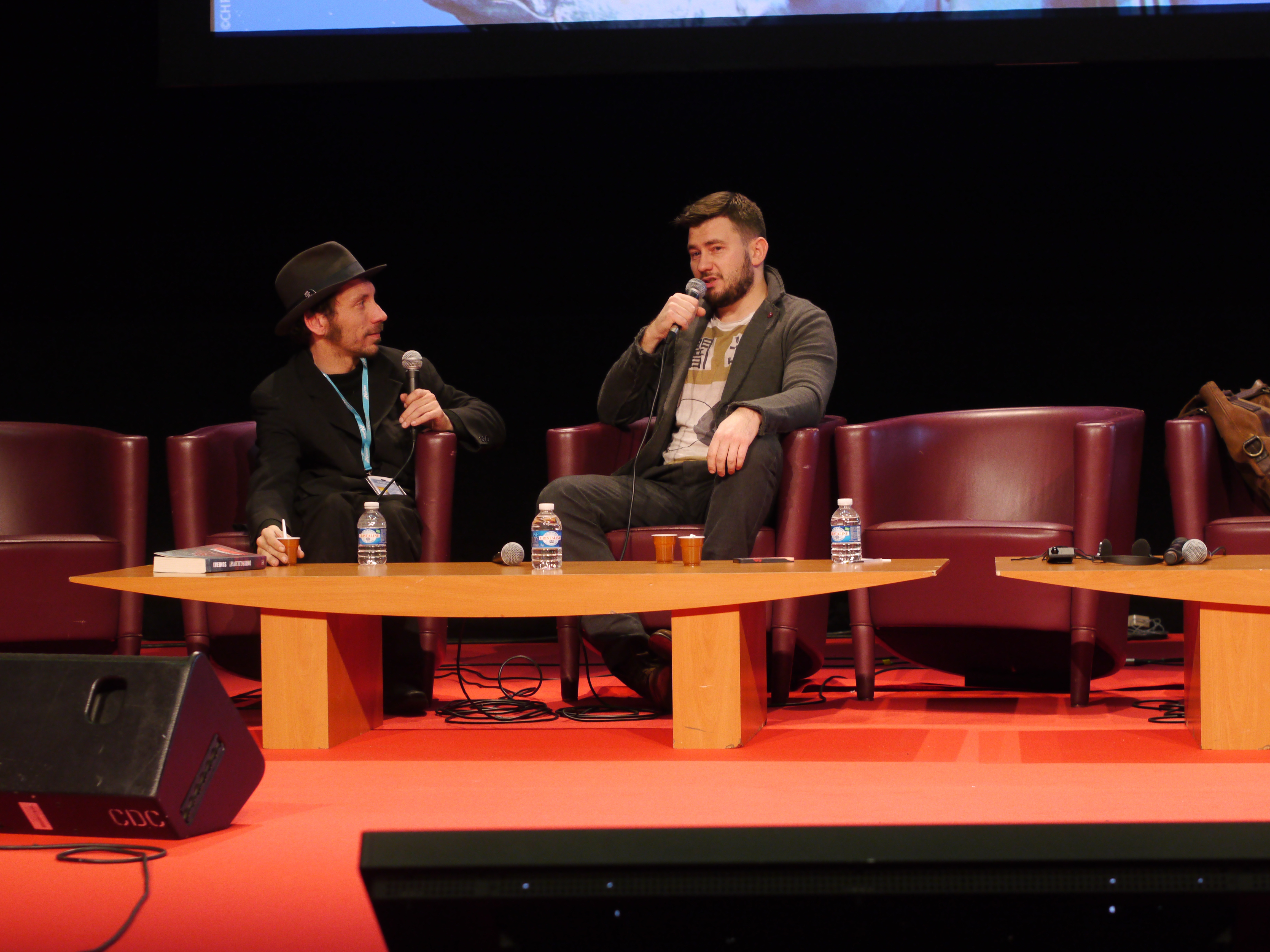 photograph taken at the 2014 edition of the "Utopiales" in Nantes.